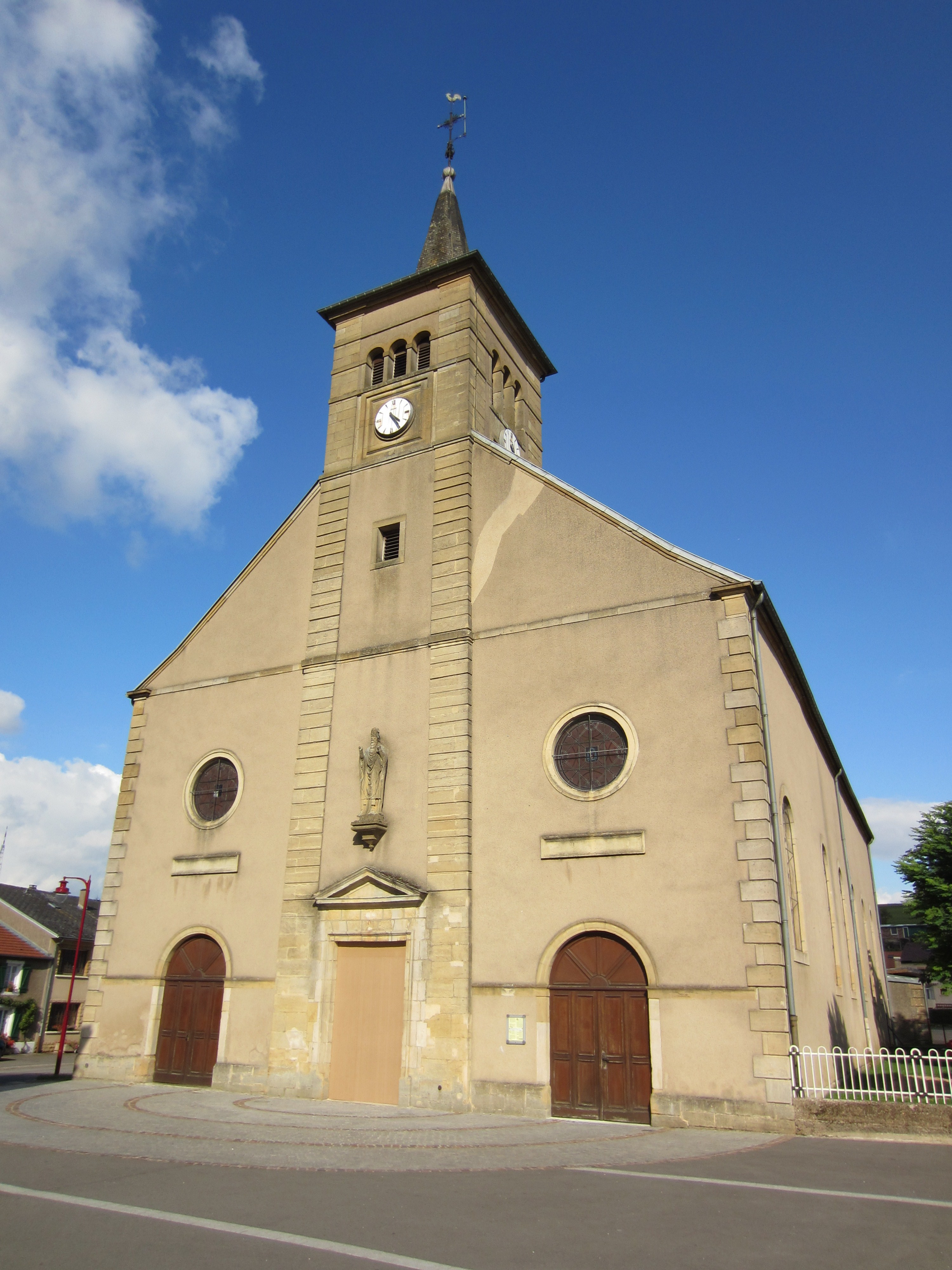 Description eglise Volmerange Mines Date19 September 2011Sourcemon appareil photoAuthorAimelaimePermission (Reusing this file) eglise Volmerange Mines